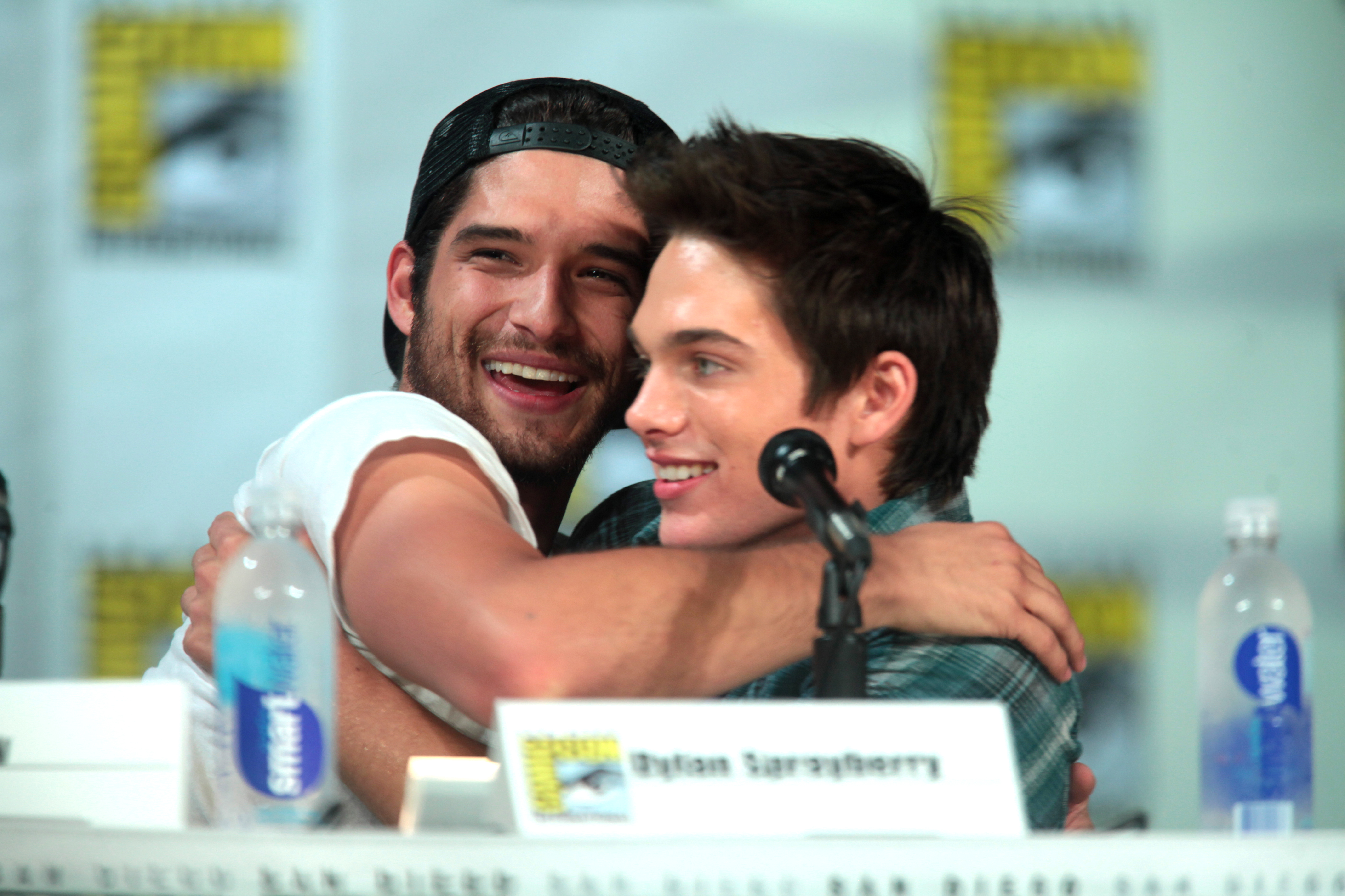 Tyler Posey and Dylan Sprayberry speaking at the 2014 San Diego Comic Con International, for "Teen Wolf", at the San Diego Convention Center in San Diego, California.